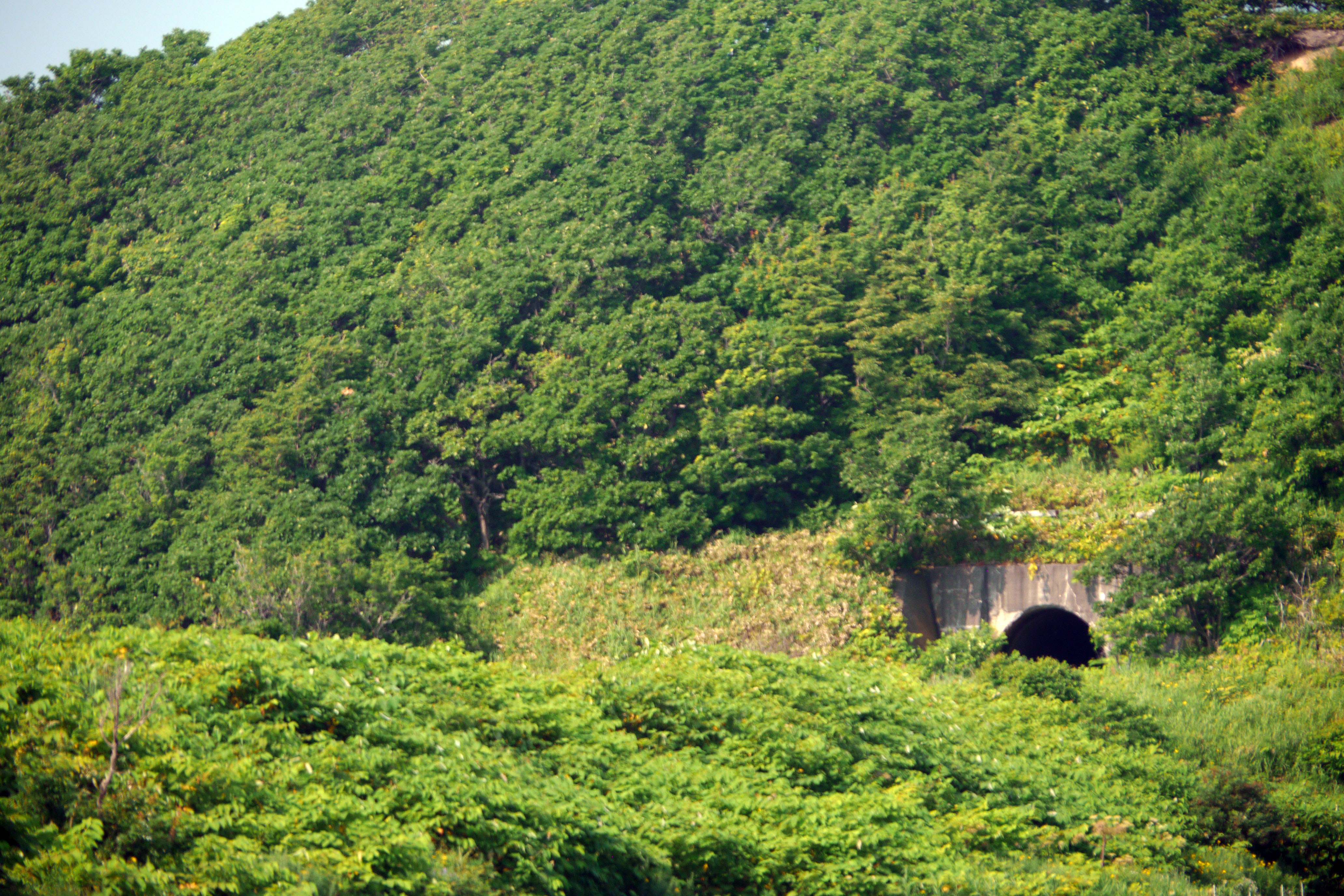 Oozawa Tunnel of the former Haboro Line in Hokkaido, Japan